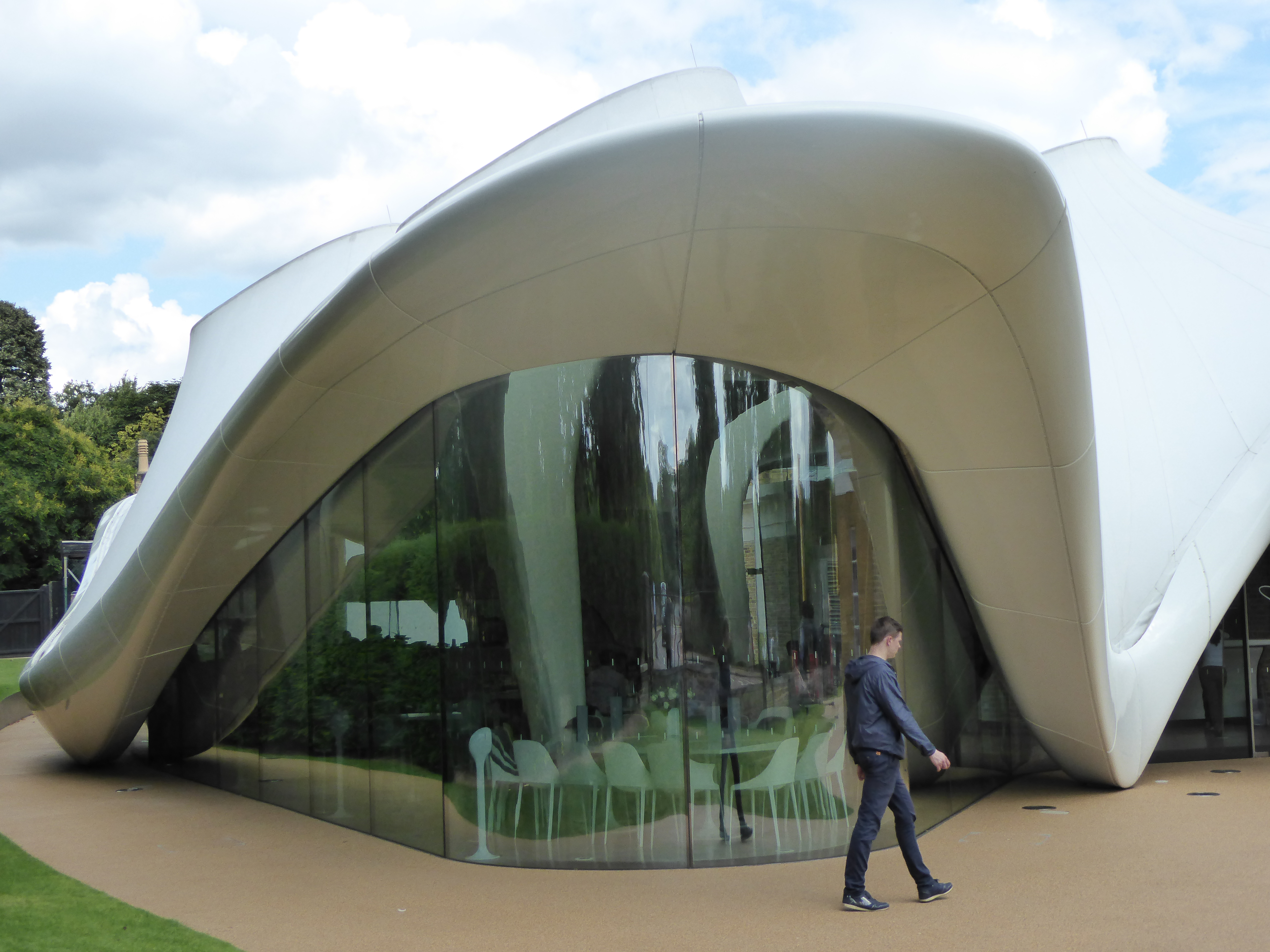 The Magazine Restaurant, Serpentine Sackler Gallery, Hyde Park, London, England, July 2014